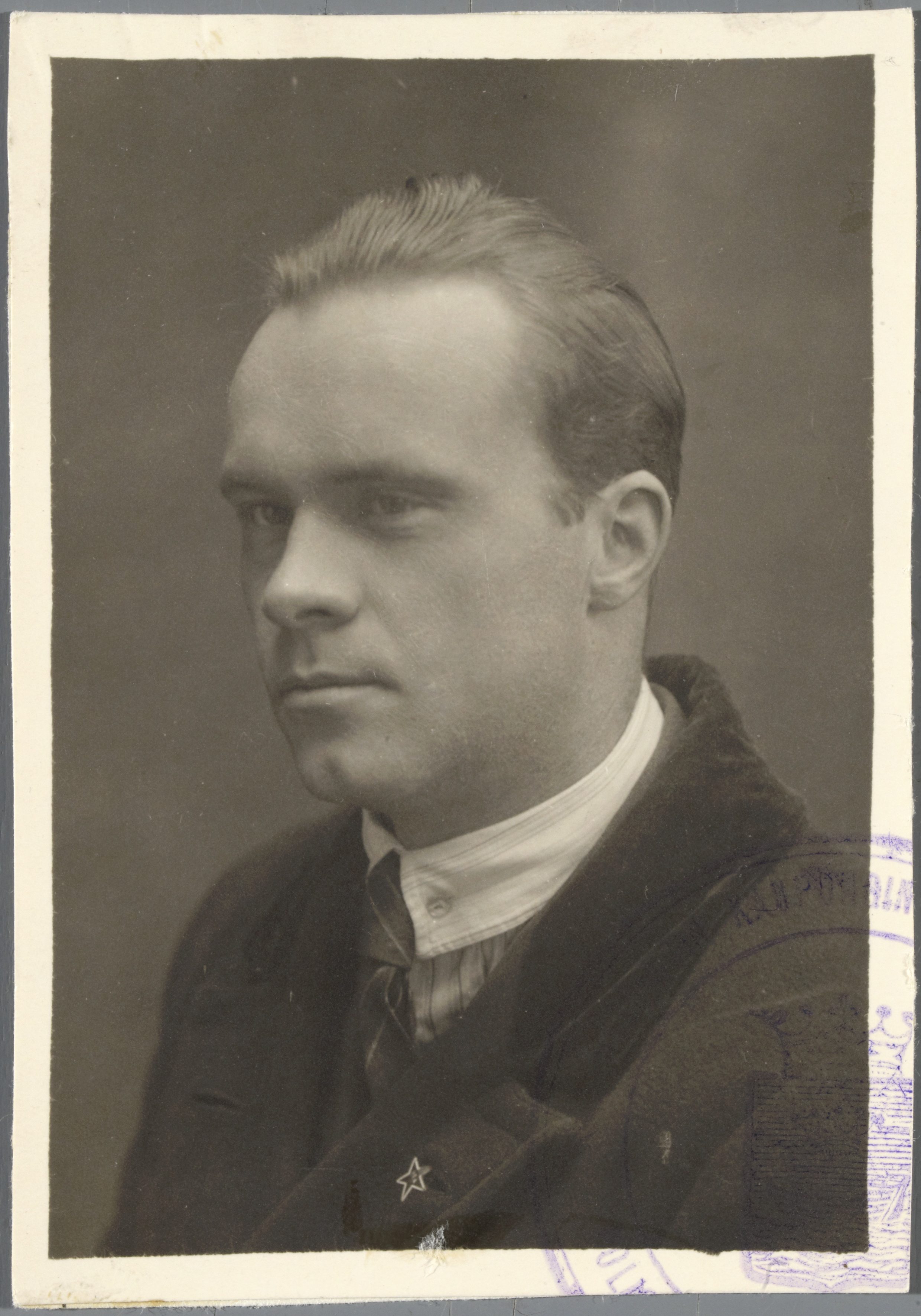 Finnish anarchist and antimilitarist Aarne Selinheimo (1898-1939).